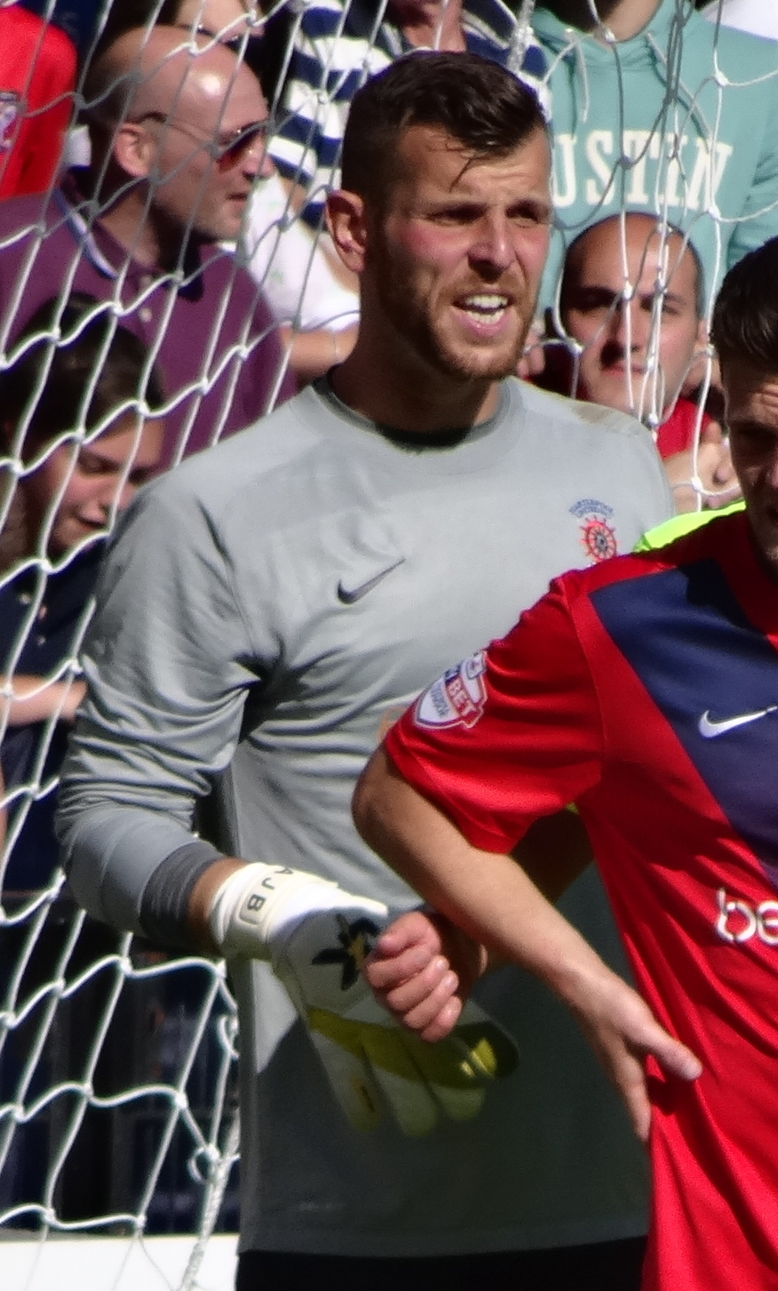 Adam Bartlett playing for Hartlepool United against York City at Bootham Crescent, York on 15 August 2015